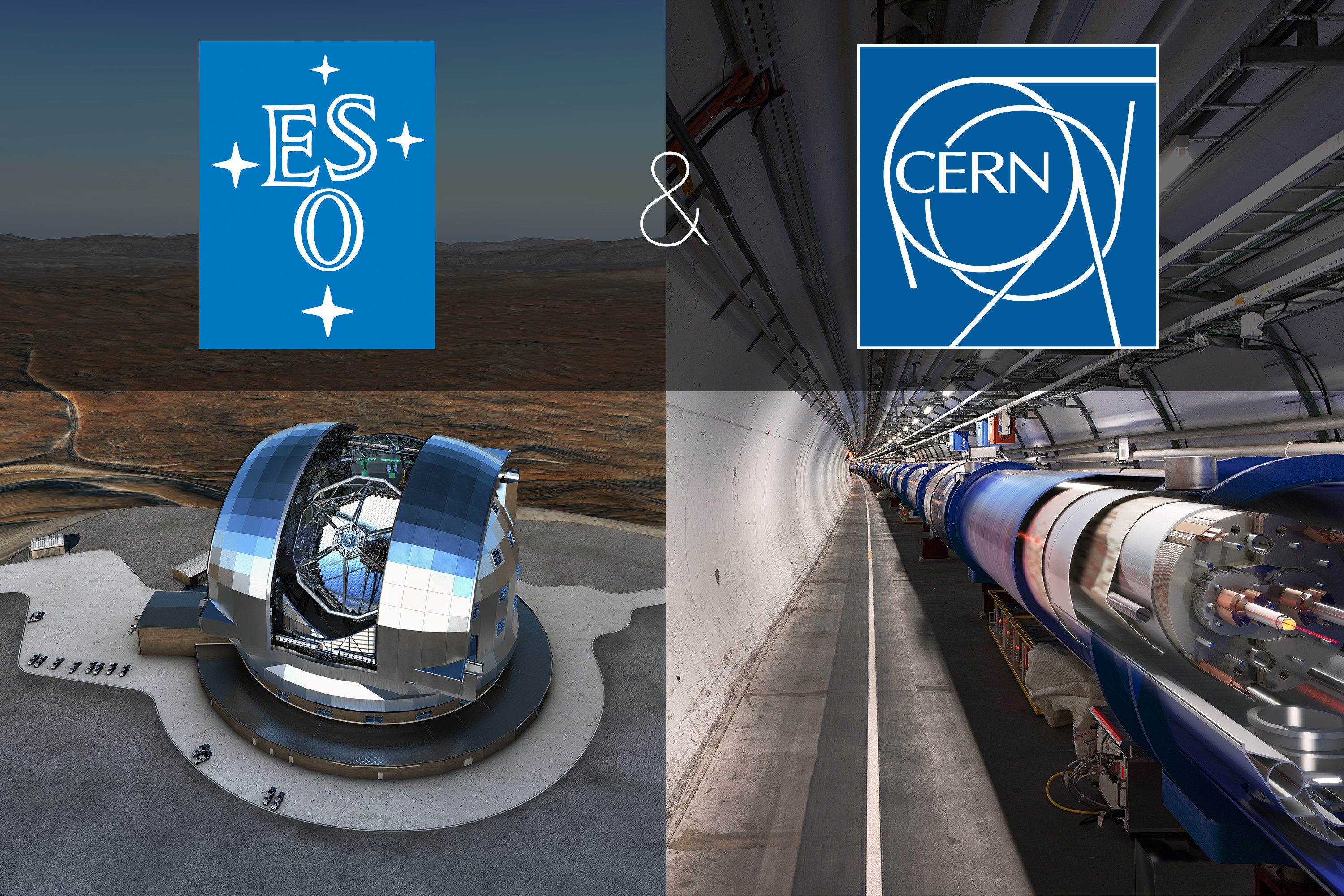 ESO and the European Organisation for Nuclear Research (CERN) have signed a cooperation agreement, providing a framework for future close cooperation and the exchange of information. The agreement addresses many areas, including scientific research, technology, and education and public outreach activities.